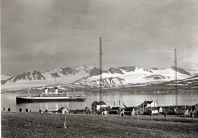 Image from 1911, of the Telegrafvæsenet (Telecom) facility erected that year at Grønfjord, Spitsbergen, Svalbard. At this time, Spitsbergen was mainly inhabited by employees of the Arctic Coal Company (U.S.). The telegraph station was established during summer, 1911, and this photo is taken either by station officers or someone else.